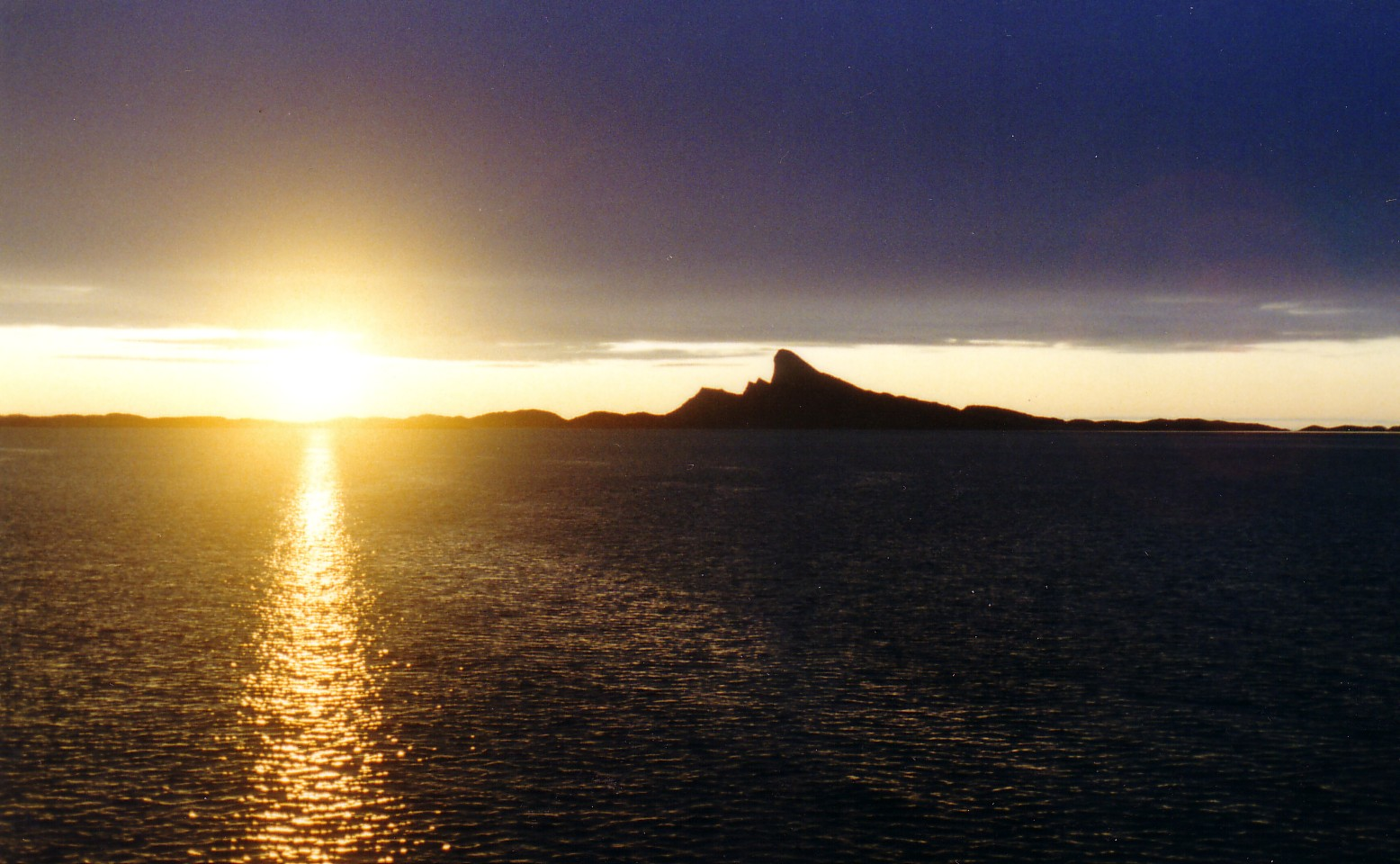 The island of Rødøya in the county of Nordland, North Norway, and the mountain formation of 'Rødøyløva' (The Rødøy Lion')